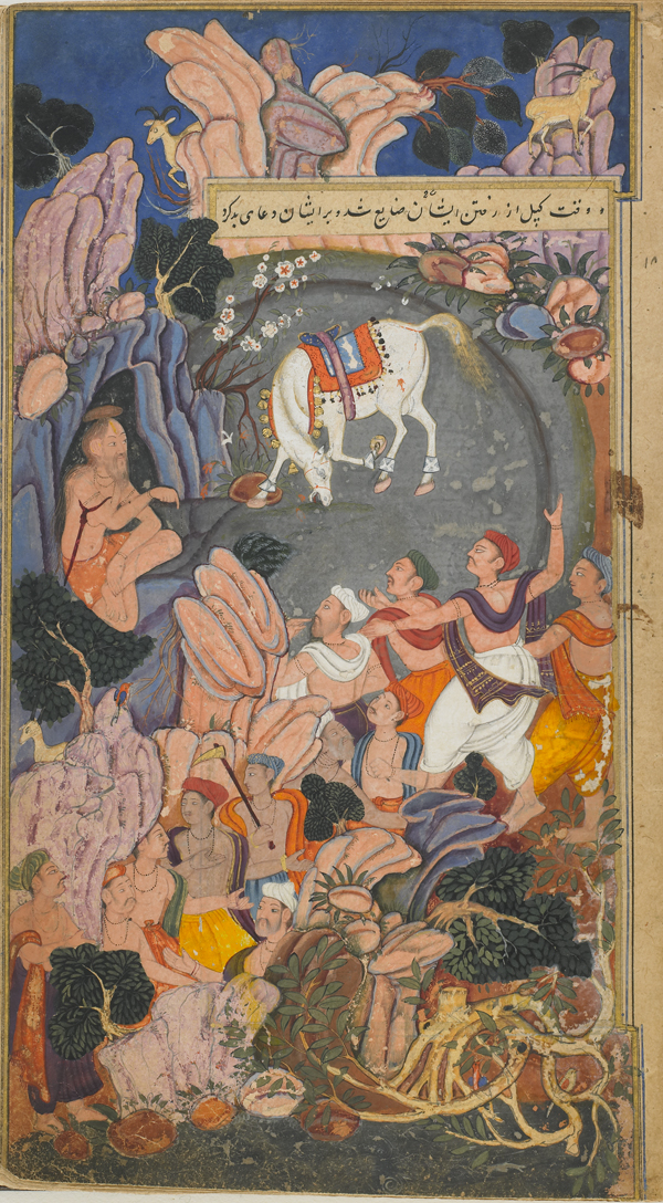 Folio from the Ramayana of Valmiki (The Freer Ramayana), Vol. 1, folio 45; recto: The sons of Sagara discover the stolen sacrificial horse grazing near Vasudeva, who had assumed the form of Kapila; verso: text 1597-1605 Fazi Mughal dynasty Opaque watercolor, ink, and gold on paper H: 27.3 W: 14.5 cm Northern India Gift of Charles Lang Freer F1907.271.45